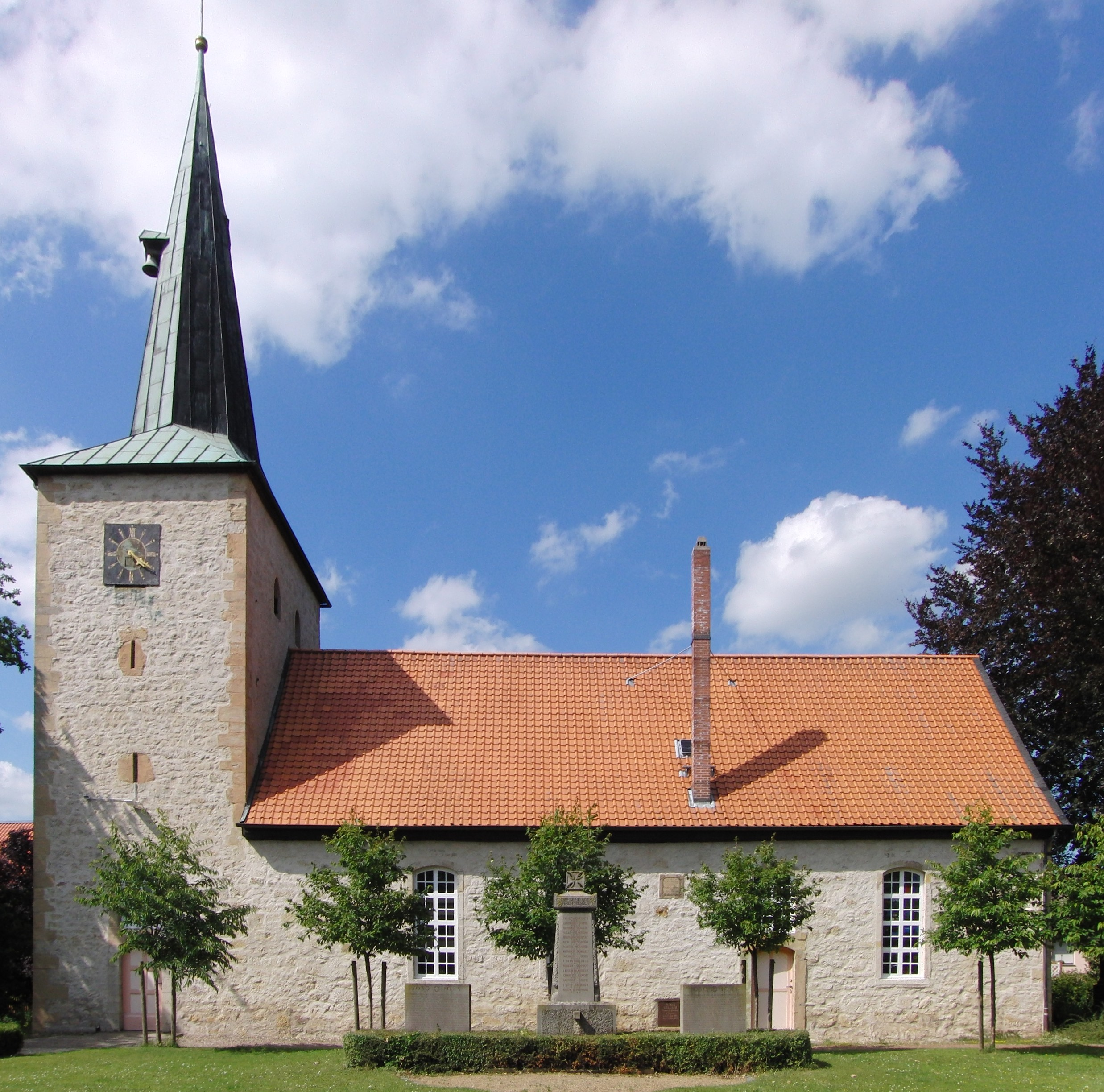 The church in Bettmar near Vechelde in Lower Saxony, Germany